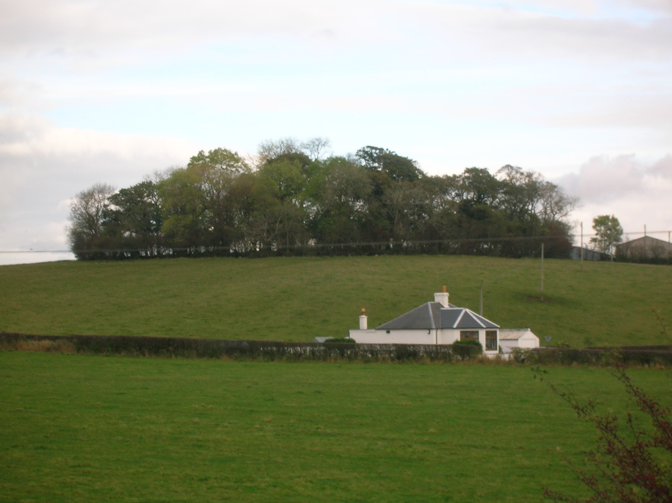 Swan Knowe, Buiston, near Kilmaurs, East Ayrshire, Scotland.